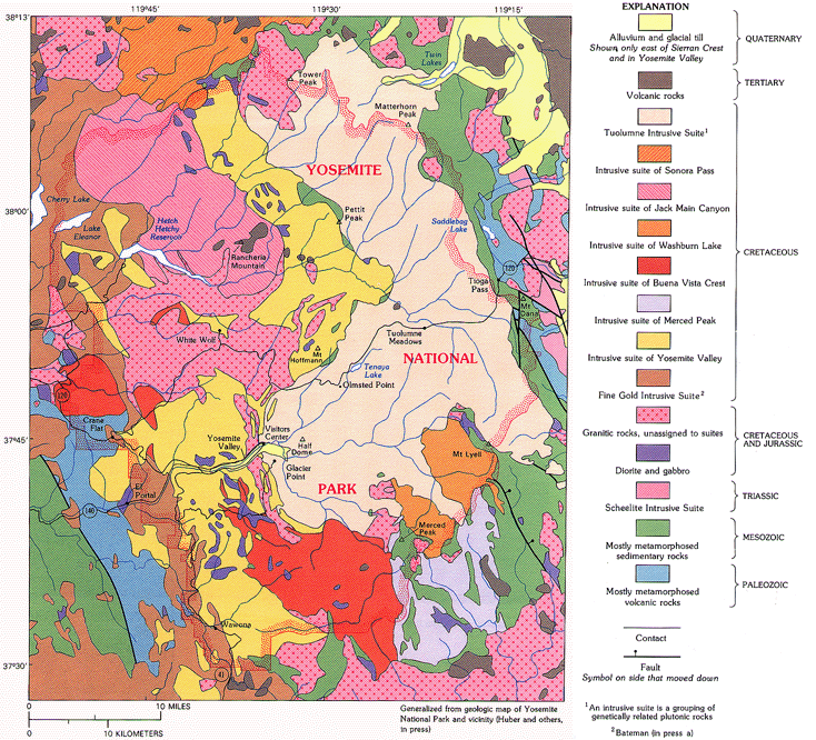 Geological map of area around Yosemite National Park